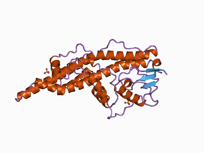 Cartoon representation of the molecular structure of protein registered with 16vp code.